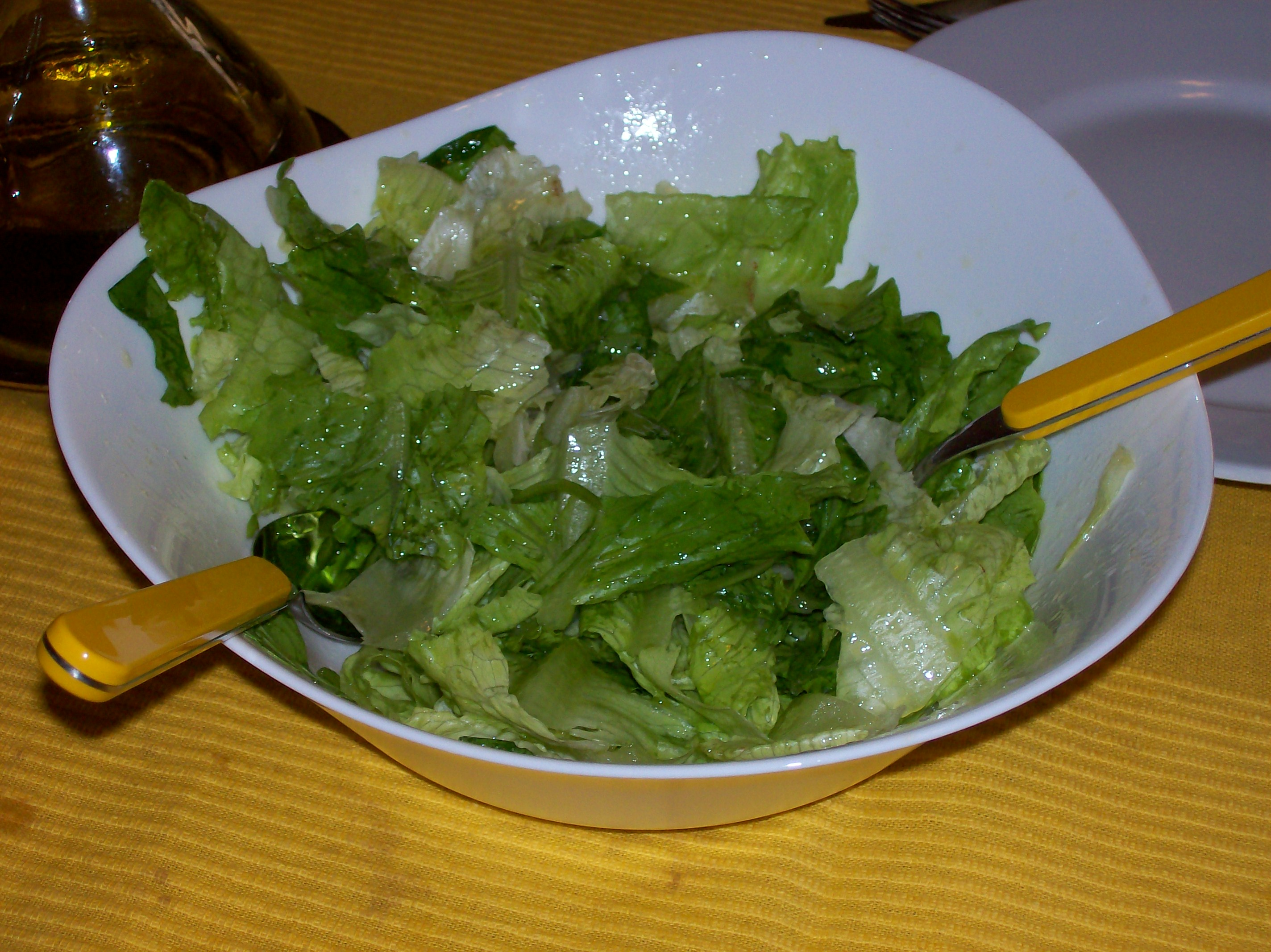 A salad of vegetables (Lettuce) Un'insalata di lattuga